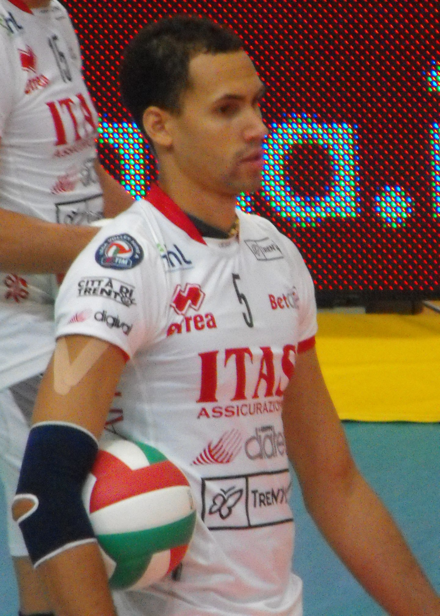 Osmany Juantorena, cuban volleyball player